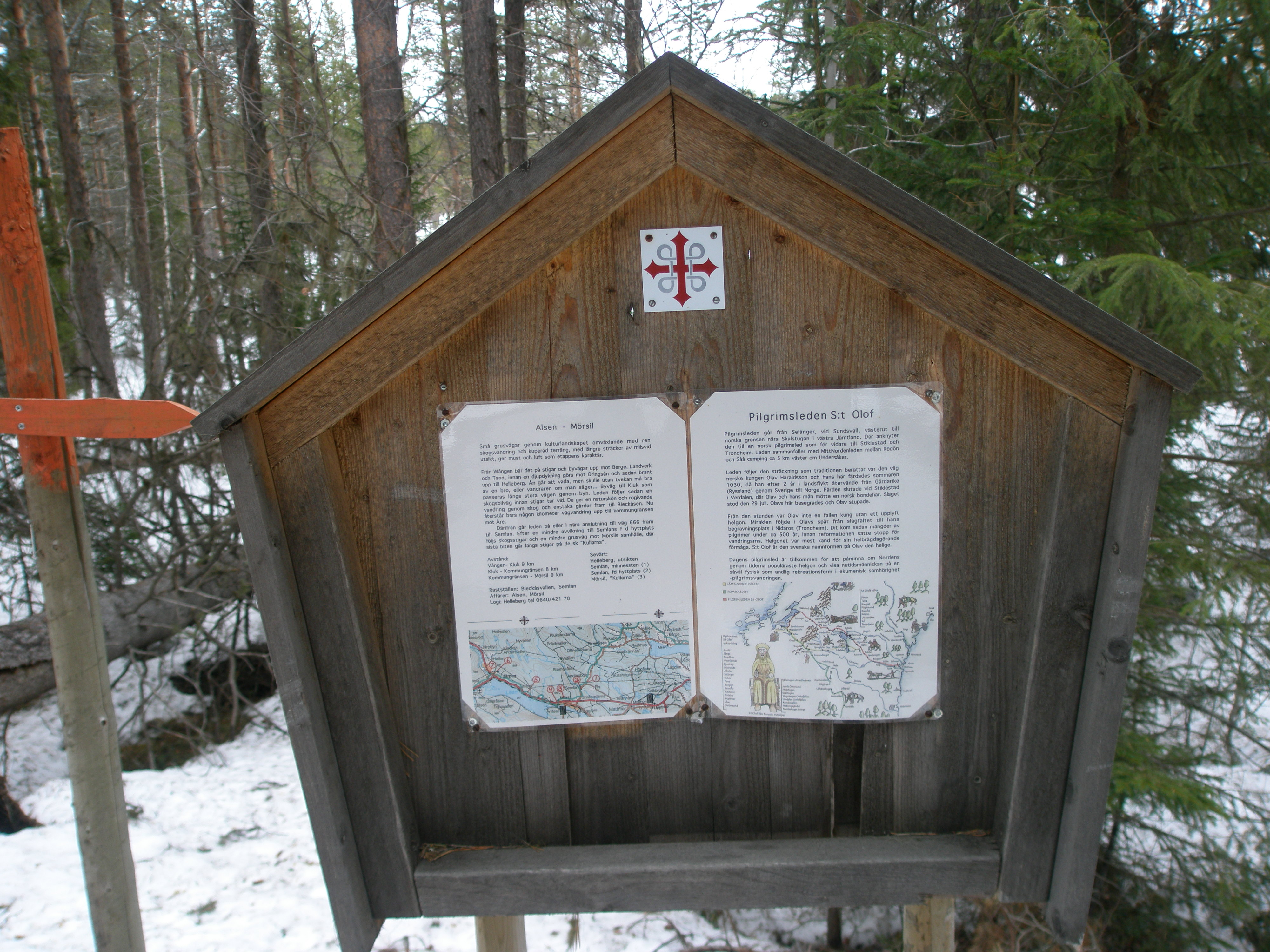 Alsen, Krokom, Jämtland, Sweden.